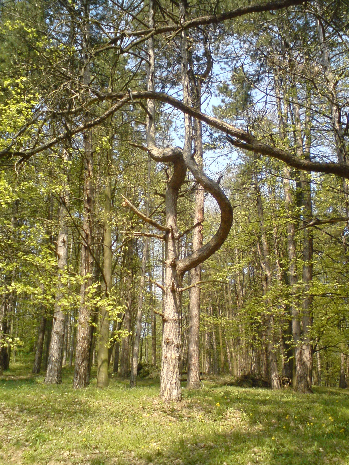 Cave Park in Valjevo